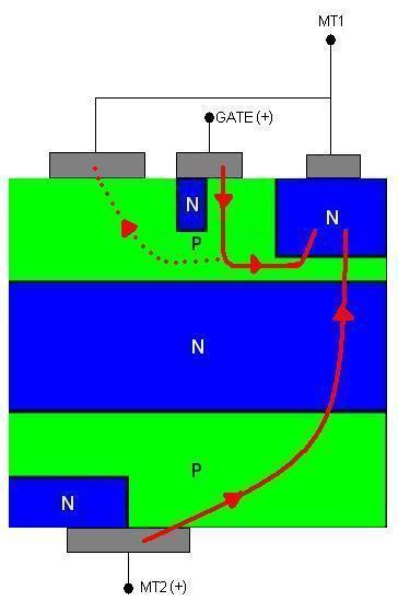 Triggering of a Triac in Q-I.